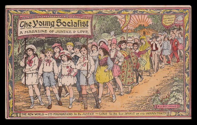 Promotional postcard for The Young Socialist magazine, circa 1905. Not copyrighted at time of publication. Published prior to 1923, public domain. Original in Tim Davenport collection, scanned for Wikipedia, no copyright claimed.